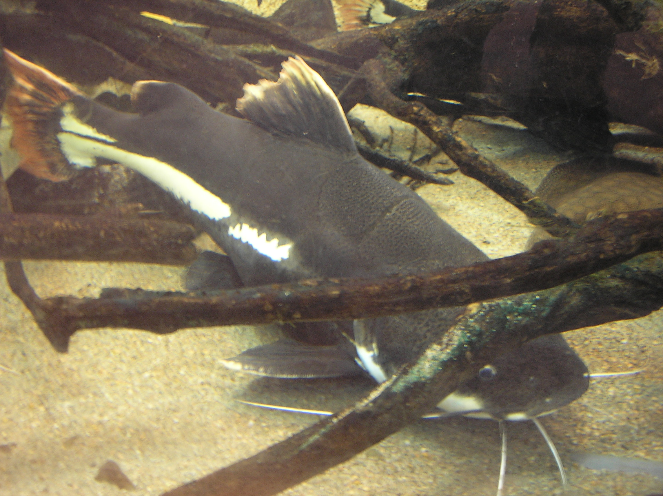 Catfish, Montreal Biodome